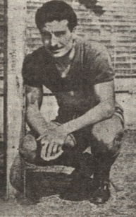 This is a photograph of Lombardo during his time with Boca Juniors in Argentina. He played for the club between 1952 & 1960.